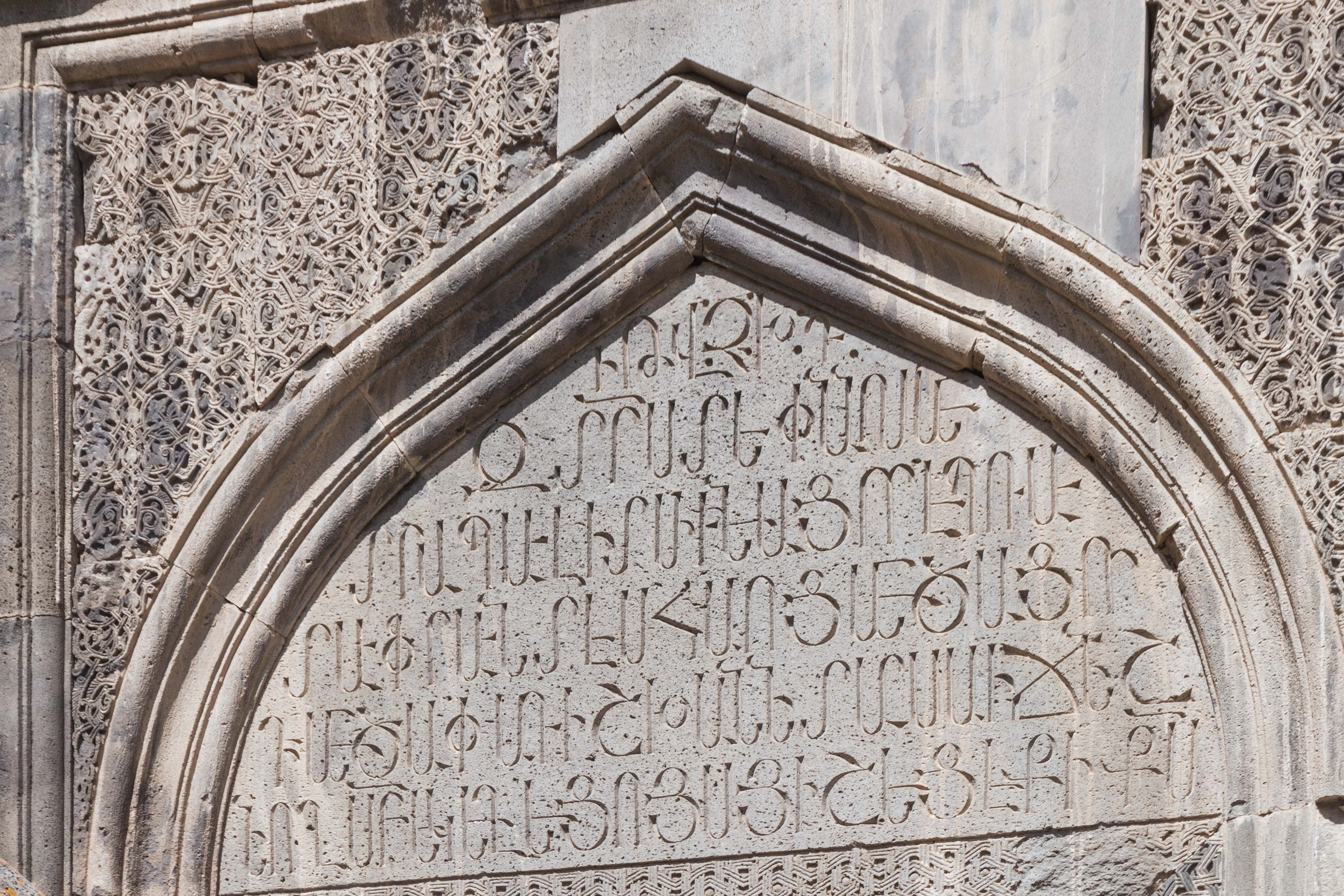 Tatev monastery. Tatev, Syunik Province, Armenia.